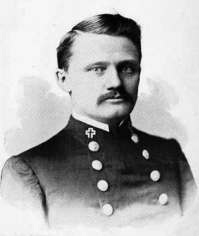 U.S. american polar explorer Evelyn Briggs Baldwin (1862-1933)